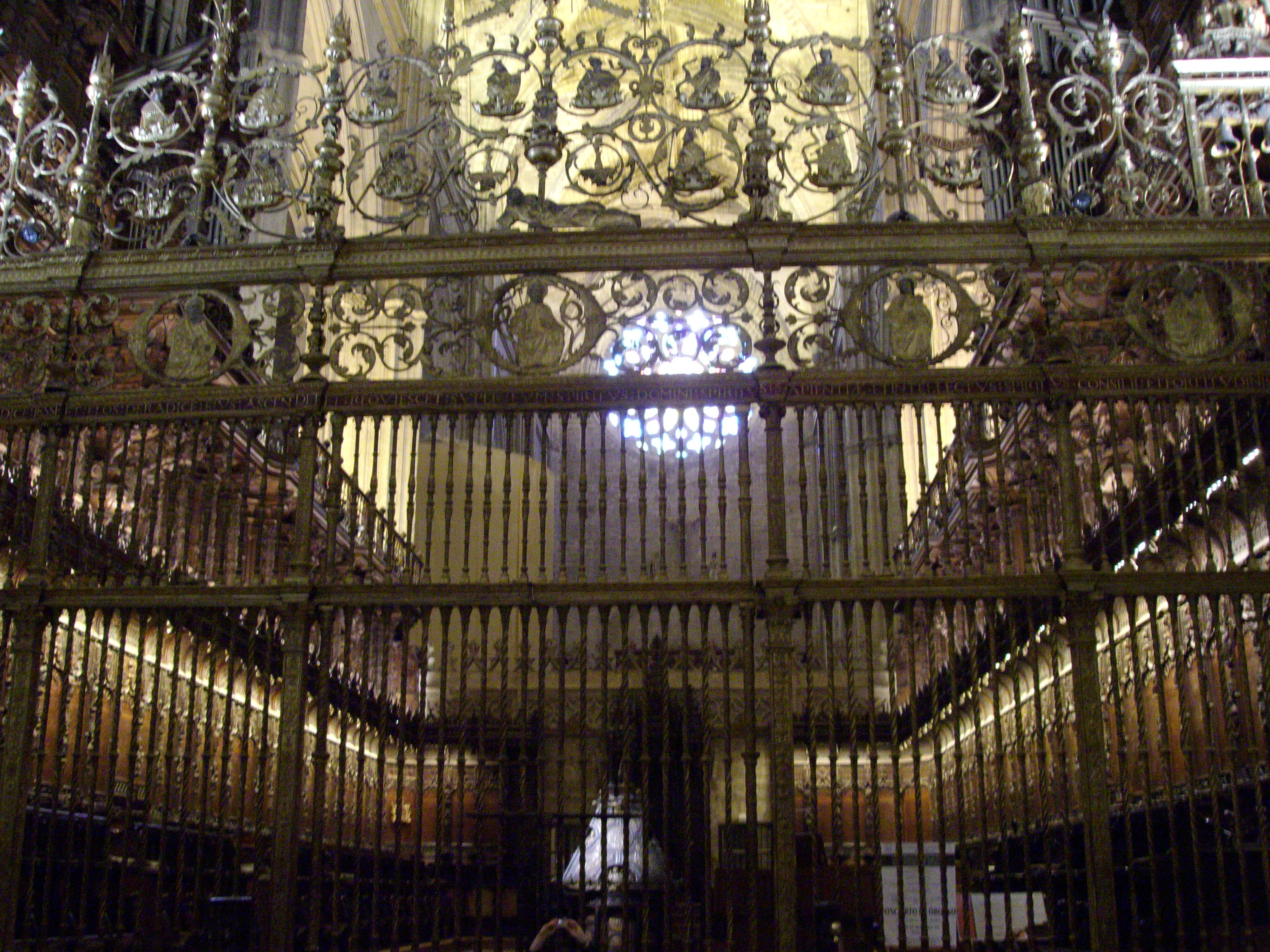 Seville Cathedral's interior in Seville.